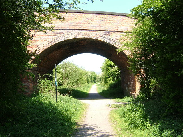 Bridge to Oakthorpe over the Ashby Woulds Heritage Trail.